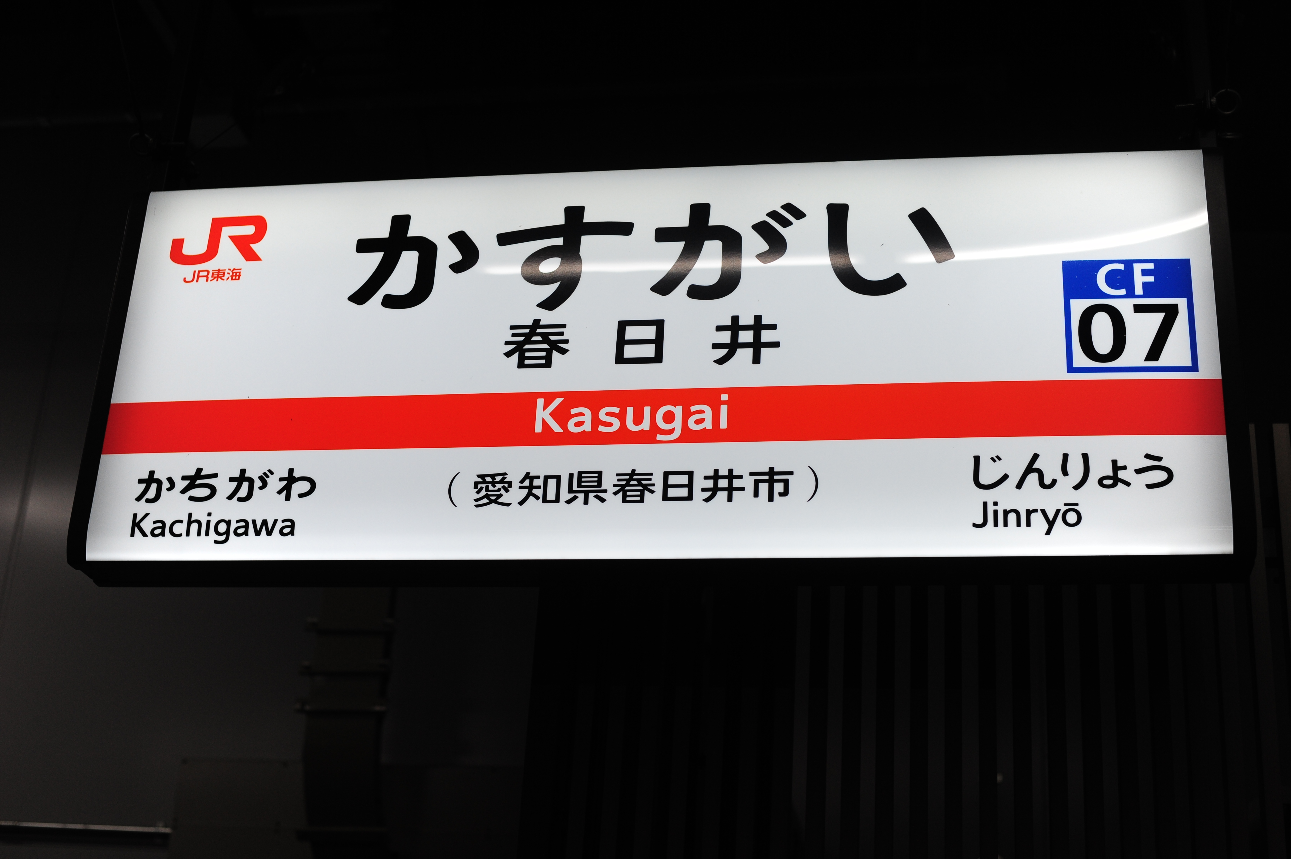 Station name board of JR Kasugai Station with station number